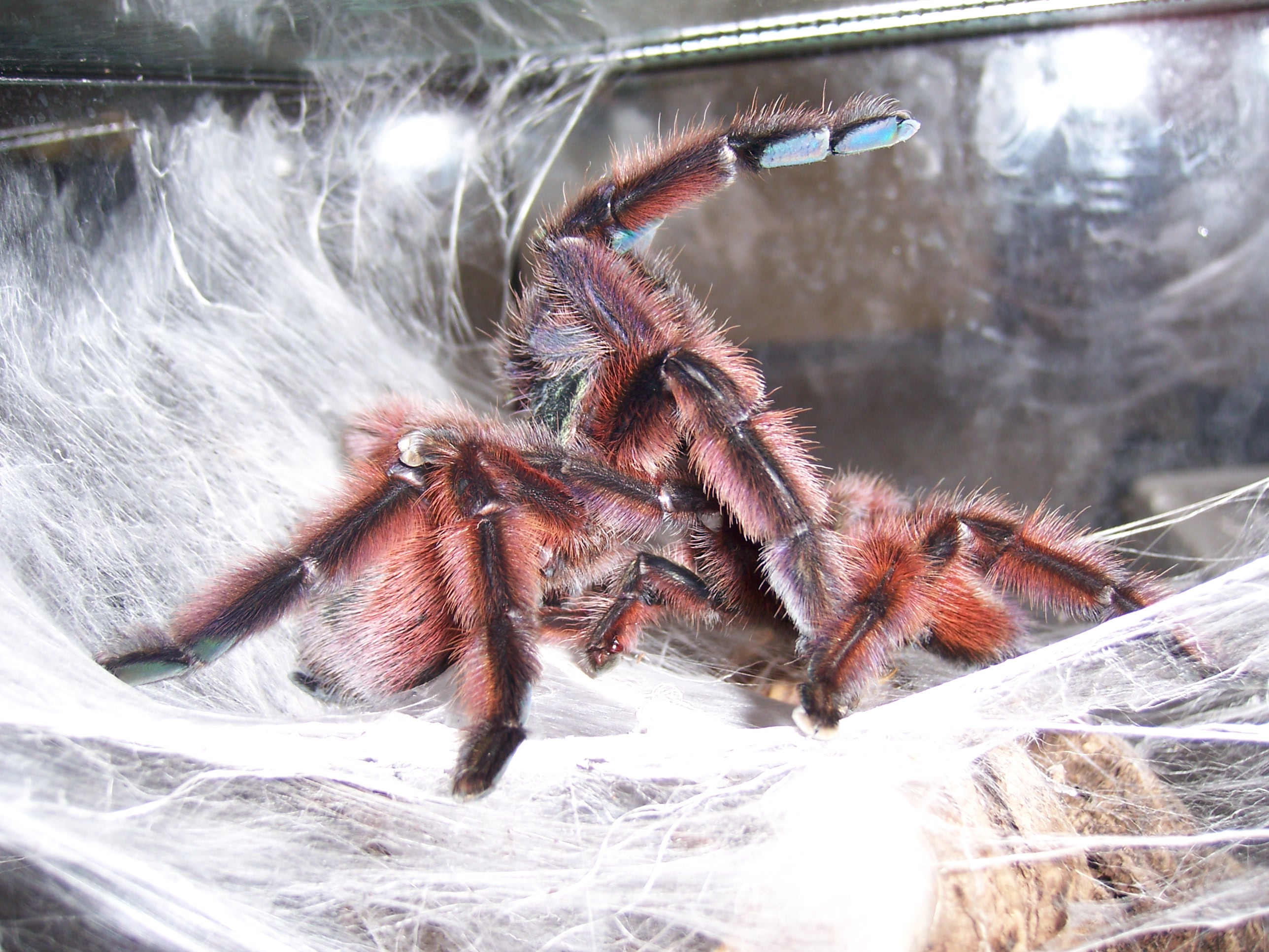 Mating of Caribena versicolor, syn. Avicularia versicolor